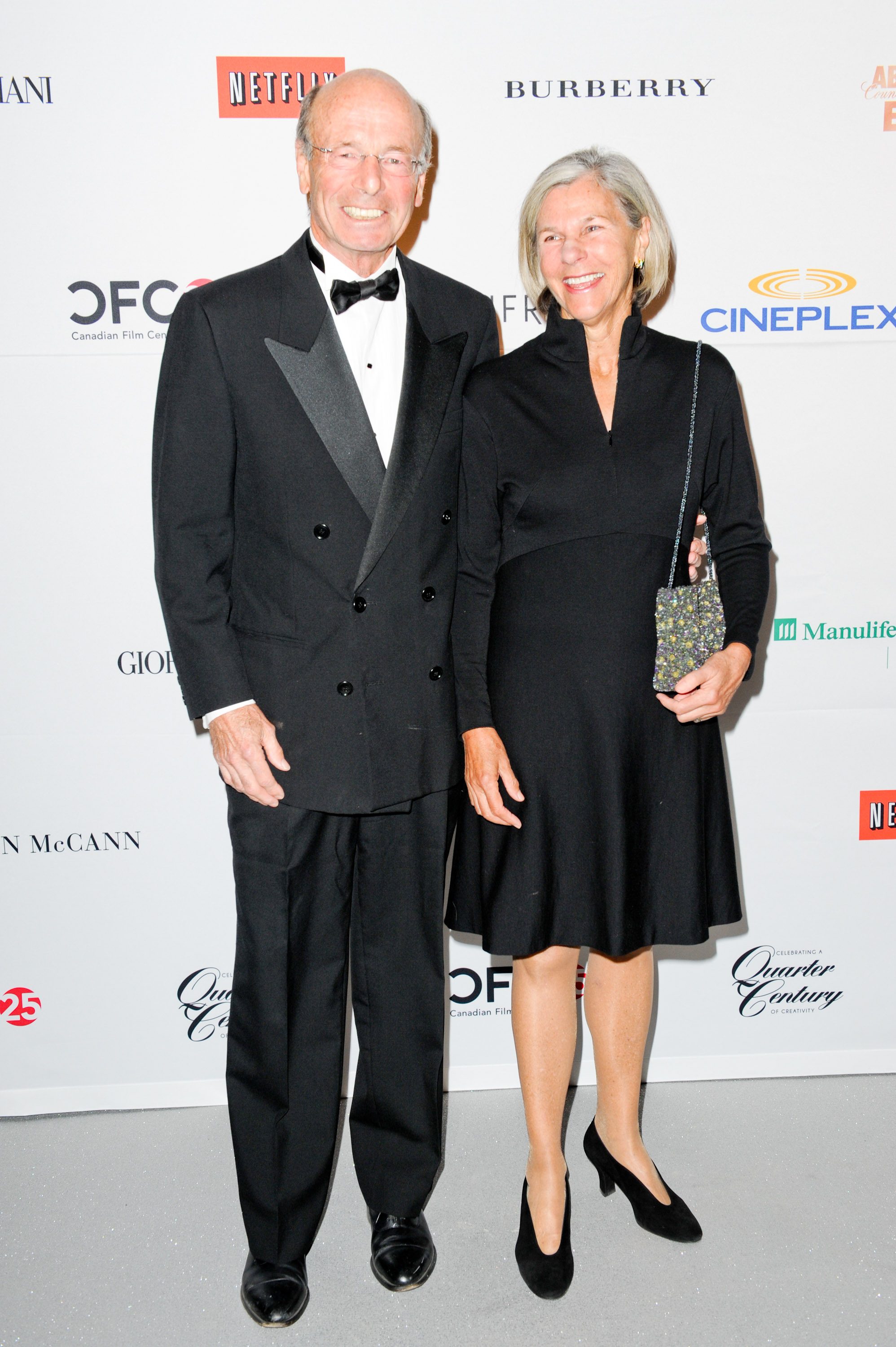 David and Julie Galloway at the 2013 CFC Annual Gala & Auction.